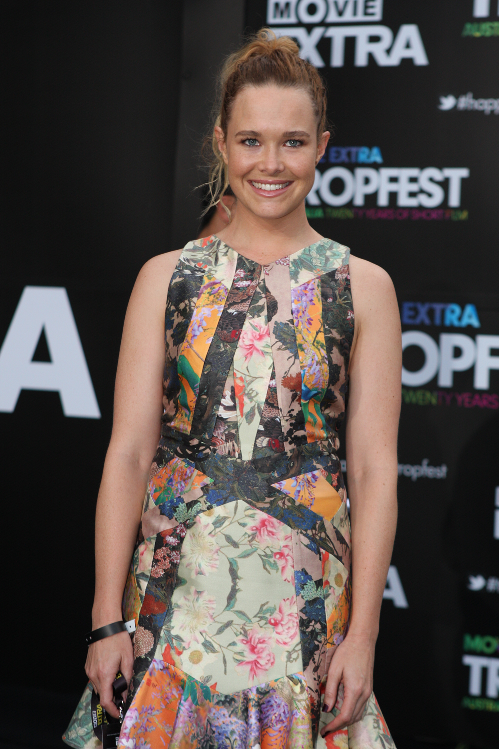 Australian actress Krew Boylan at Tropfest 2012 in Sydney, Australia